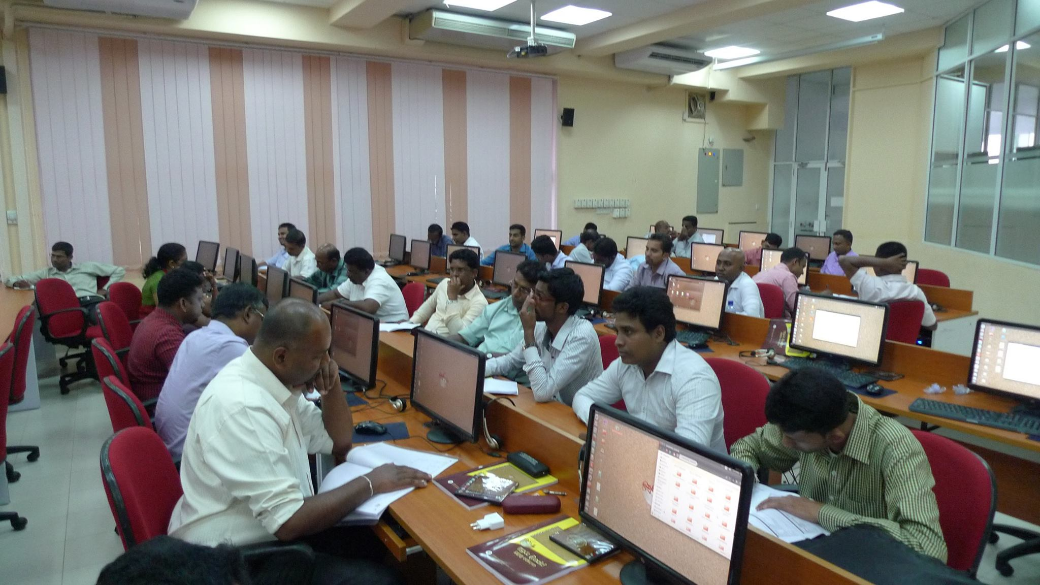 ISURU Linux Training Programme, Meepe, Sri Lanka